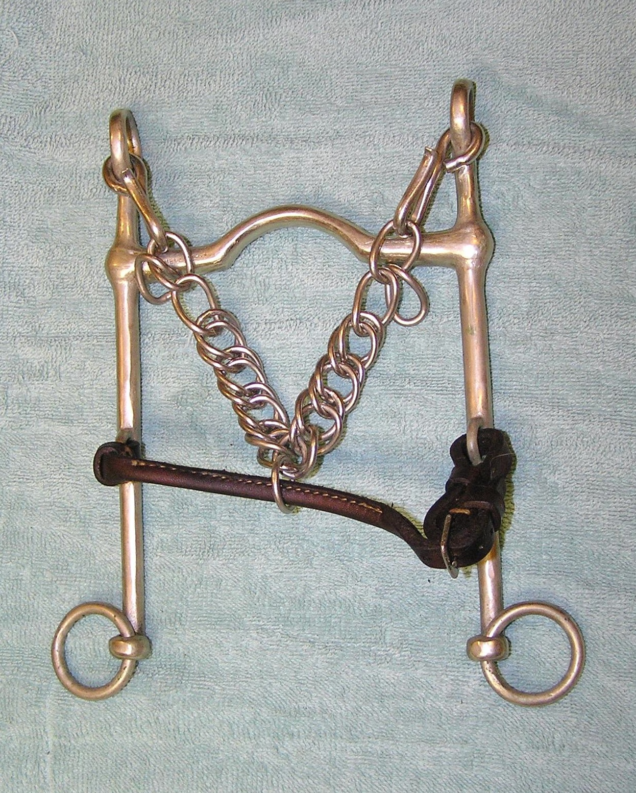 A properly set up English-style curb bit as used by Saddle Seat riders. This bit is usually used in conjunction with a bradoon style snaffle on a double bridle